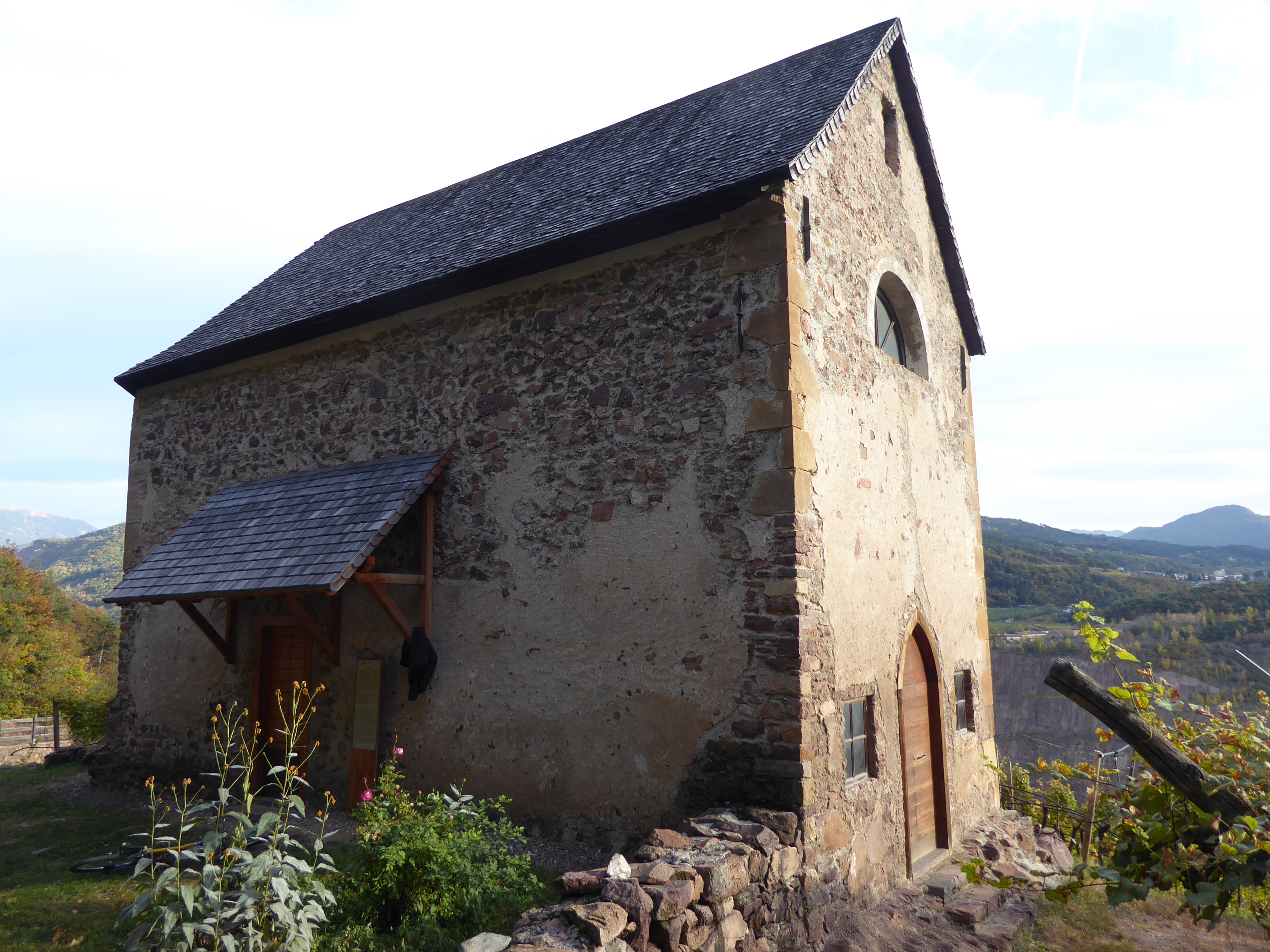 St. George's church in Mosana (Giovo, Trentino, Italy)